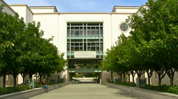 Honnold-Mudd Library, Claremont, California